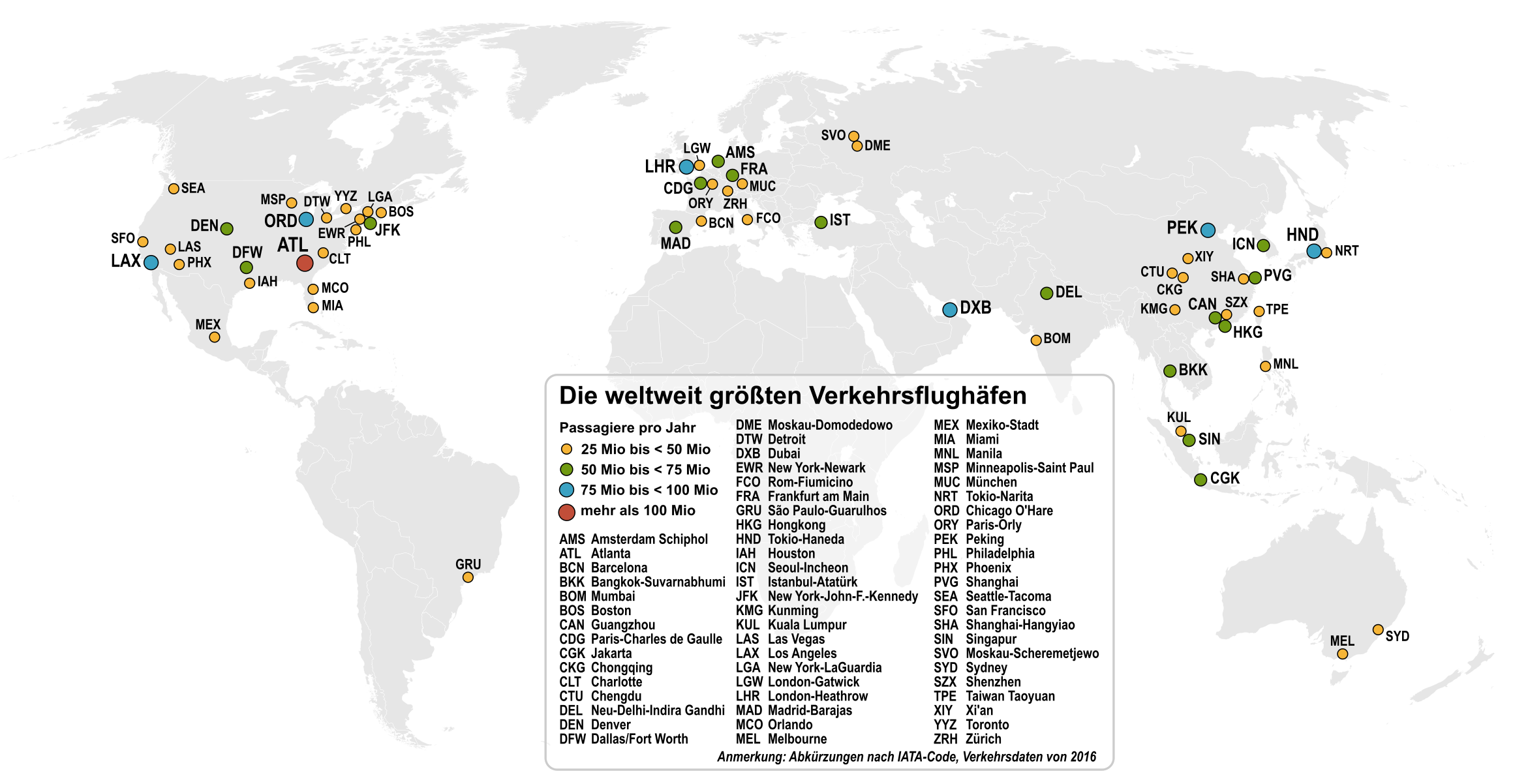 Map of the largest airports worldwide based on the number of passengers in 2016